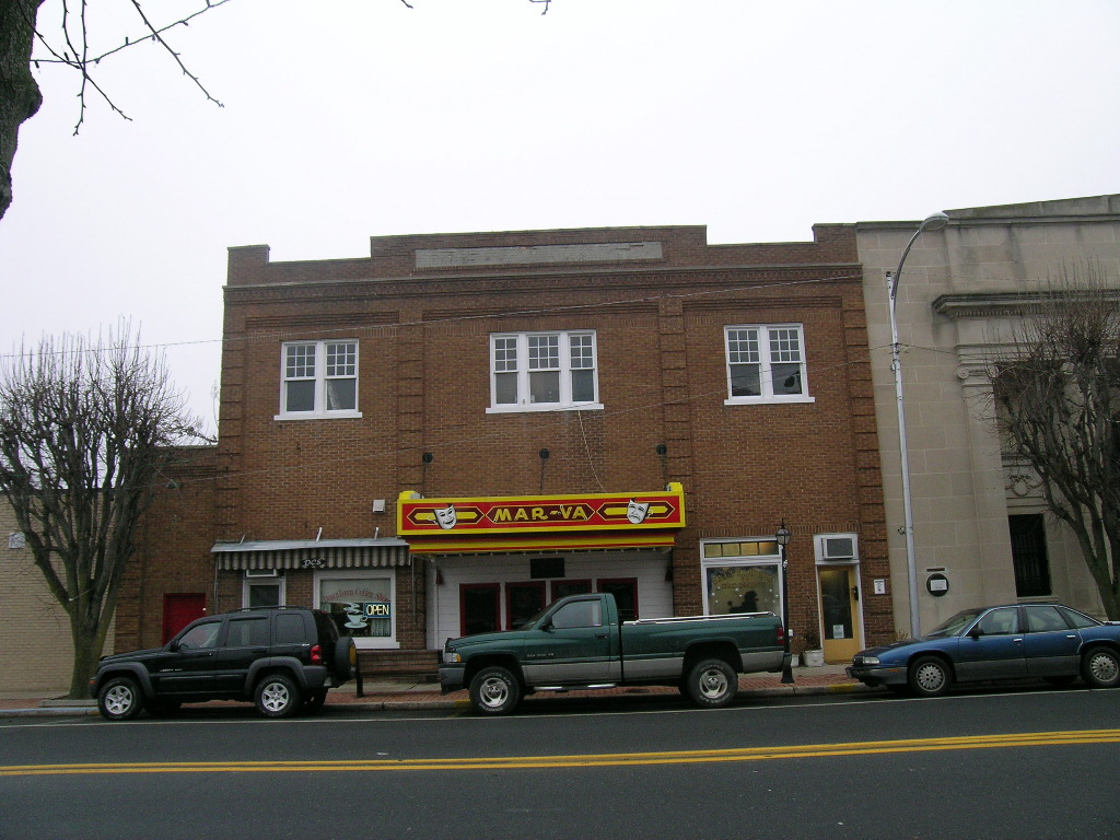 A street view of the Mar-Va Theater. It was constructed in 1927.